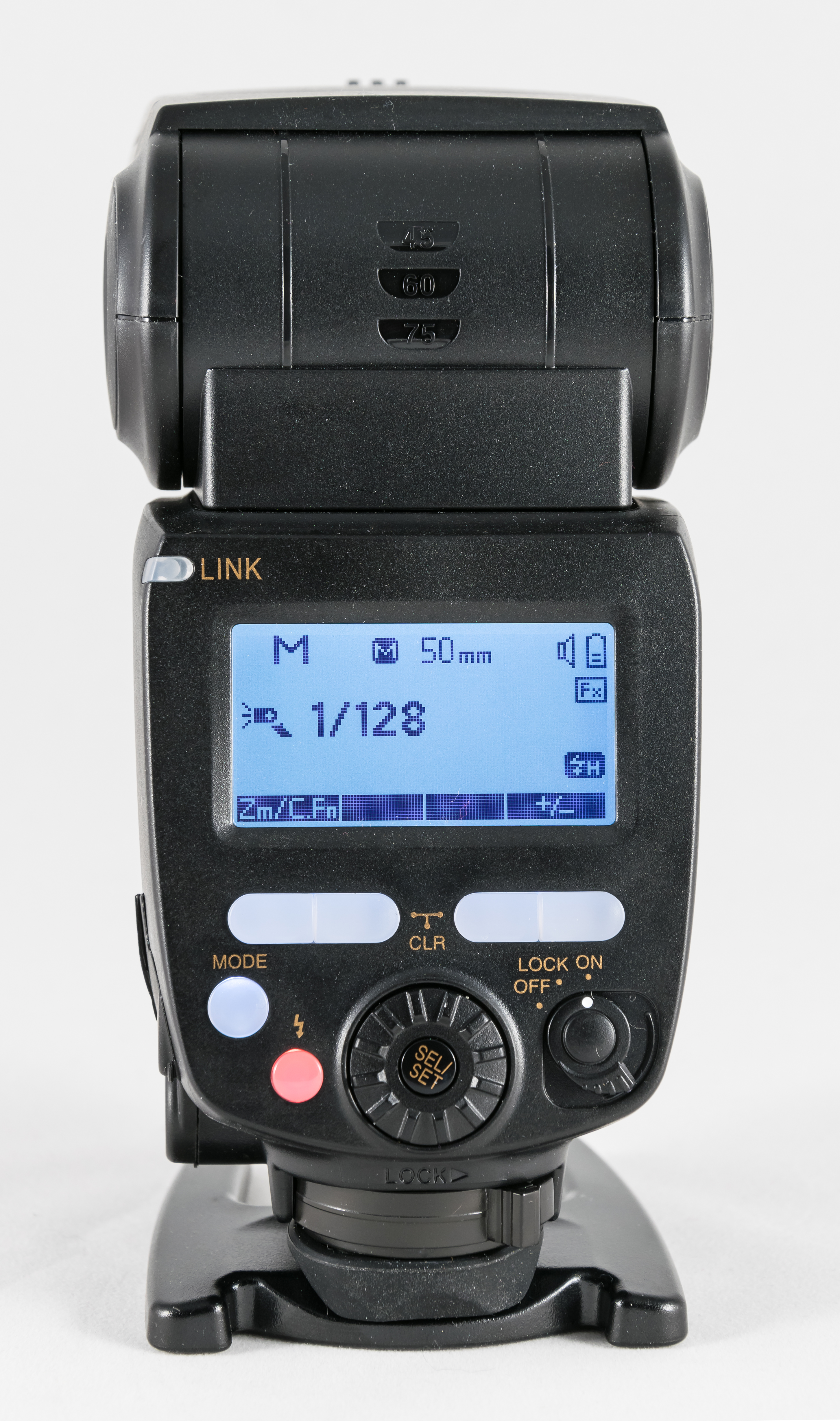 Yongnuo YN685 speedlite